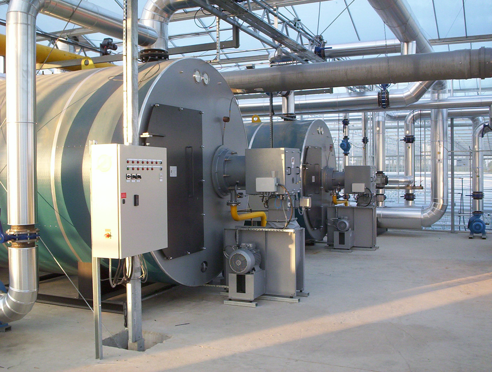 Zantingh Burner